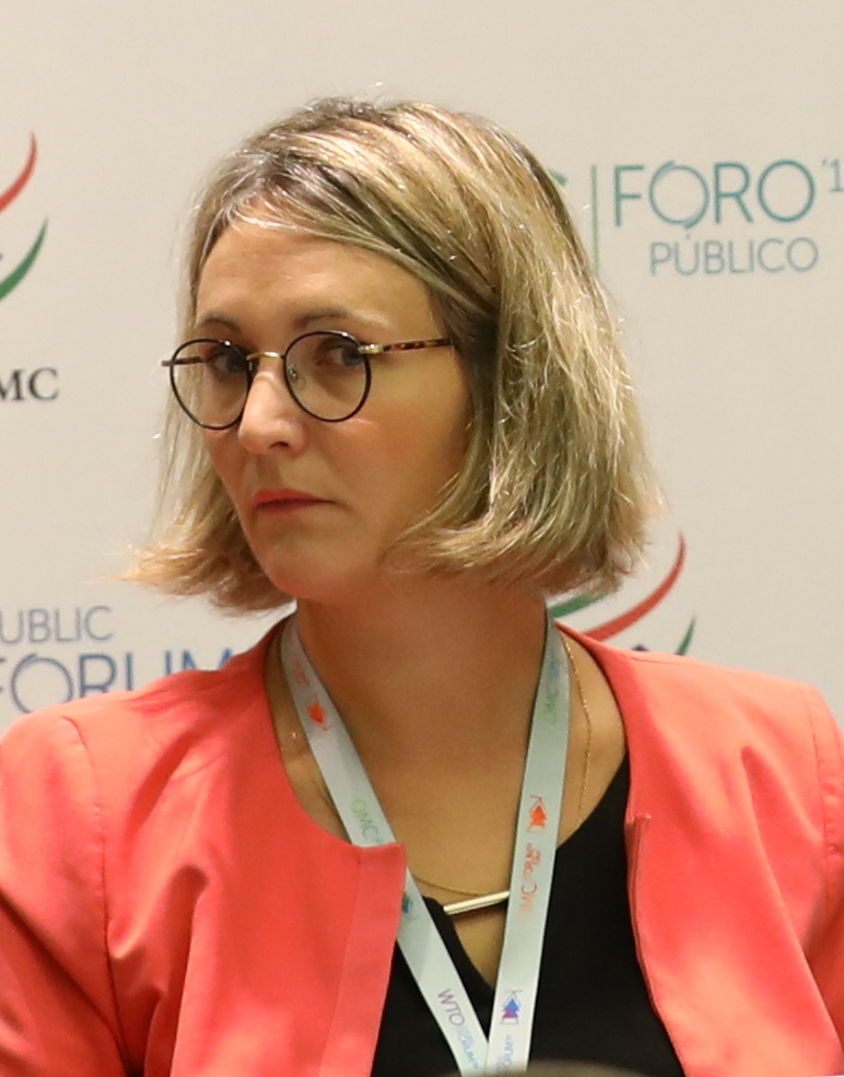 Photos from the WTO Public Forum 2019 photo gallery may be reproduced provided attribution is given to the WTO and the WTO is informed. Photos: © WTO/Jay Louvion